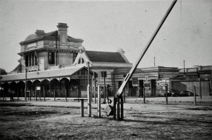 The Quilmes train station, after being remodeled by the Buenos Aires Great Southern Railway (in